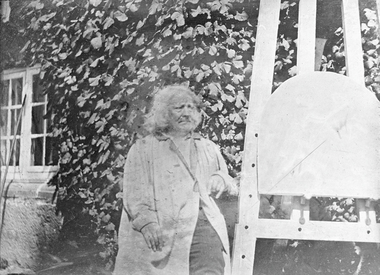 Photograph of Danish sculptur Bertel Thorvaldsen by French photographer Aymard-Charles-Théodore Neubourg. Note: Thorvaldsen was not friendly to new photographic technique and shows with his left hand a preventive sign opposite the diabolical attack.